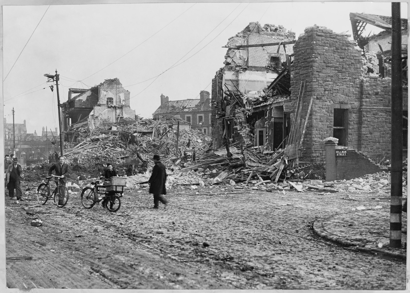 Photographs from a report compiled by the Ministry of Public Security on the air raids on Belfast and their aftermath. Creator: Ministry of Public Security, records of the Cabinet Secretariat Date: 1941 Original Format: Photographic print Description: Antrim Road corner of Duncairn Gardens, Belfast. April 19th 1941 PRONI Ref: CAB/3/A/68/A For Copy Orders, contact: For fees and charges